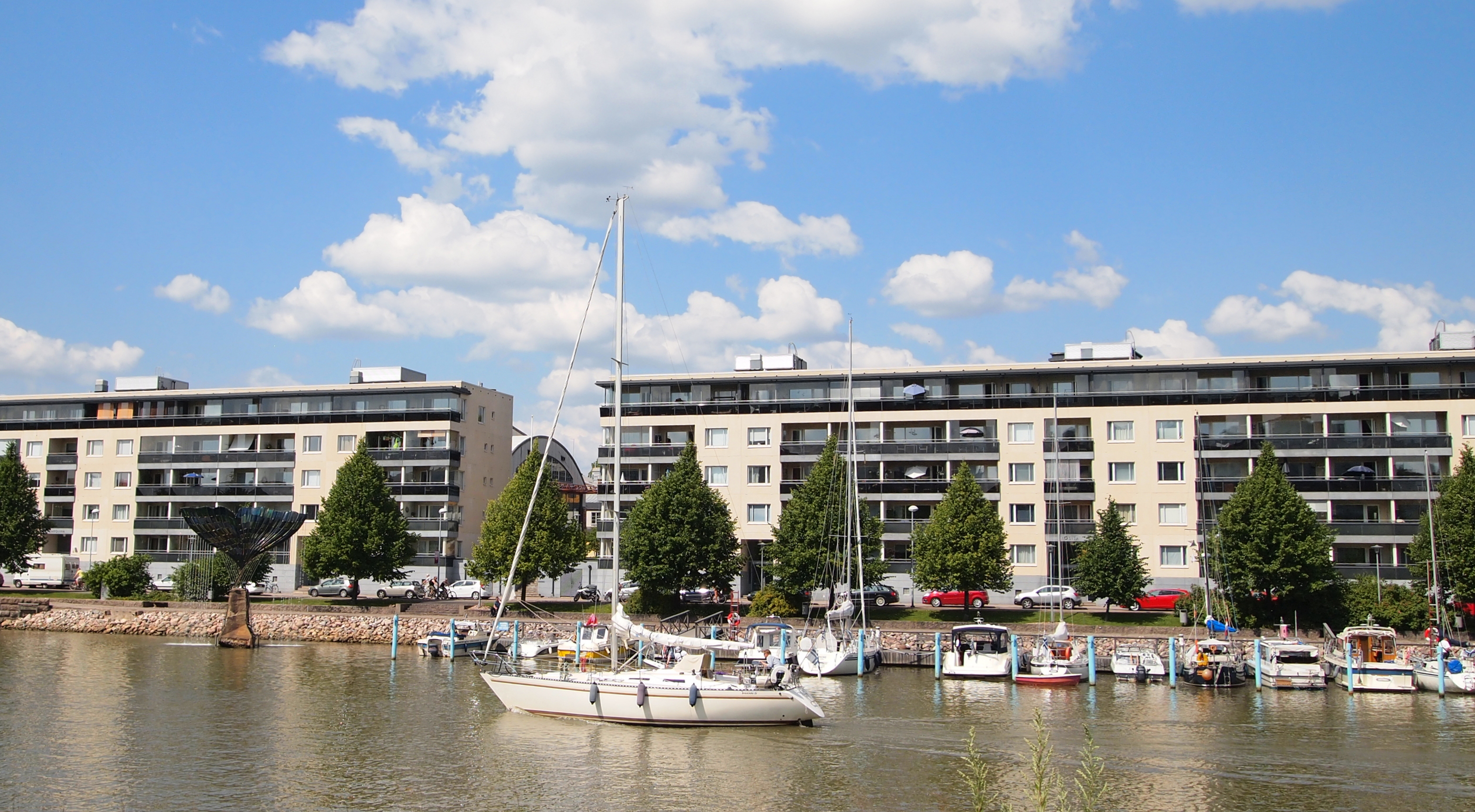 River Aurajoki and buildings on the street Läntinen Rantakatu in Turku. This photograph was taken with an Olympus E-PL1